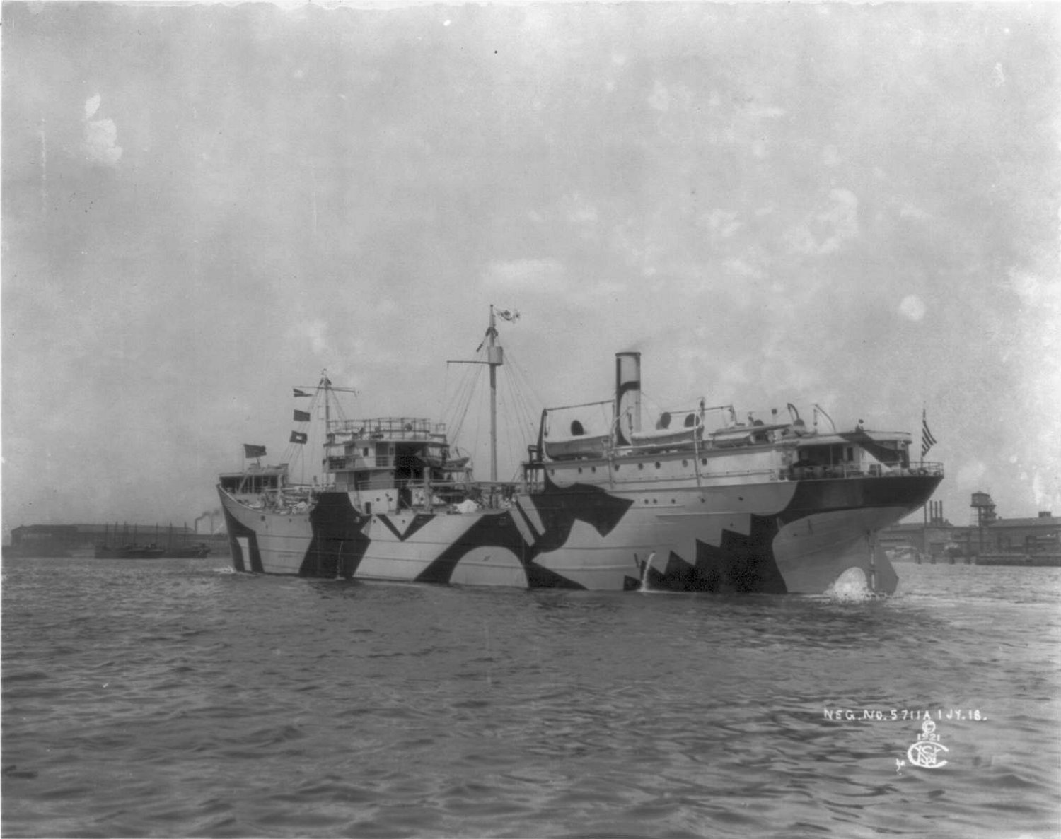 On trial trip in Delaware Bay. Library of Congress photo LC-USZ62-44179, © 1921 by N.Y. Shipbuilding Corp., Camden - 1 July 1918